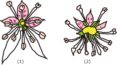 This is a Saxifraga stolonifera (1) and a Saxifraga stolonifera Curtis f. aptera (2) picture. You can only see Saxifraga stolonifera Curtis f. aptera in Mt. Tsukuba, Ibaraki, Japan. I'm sorry for my poor illustration.